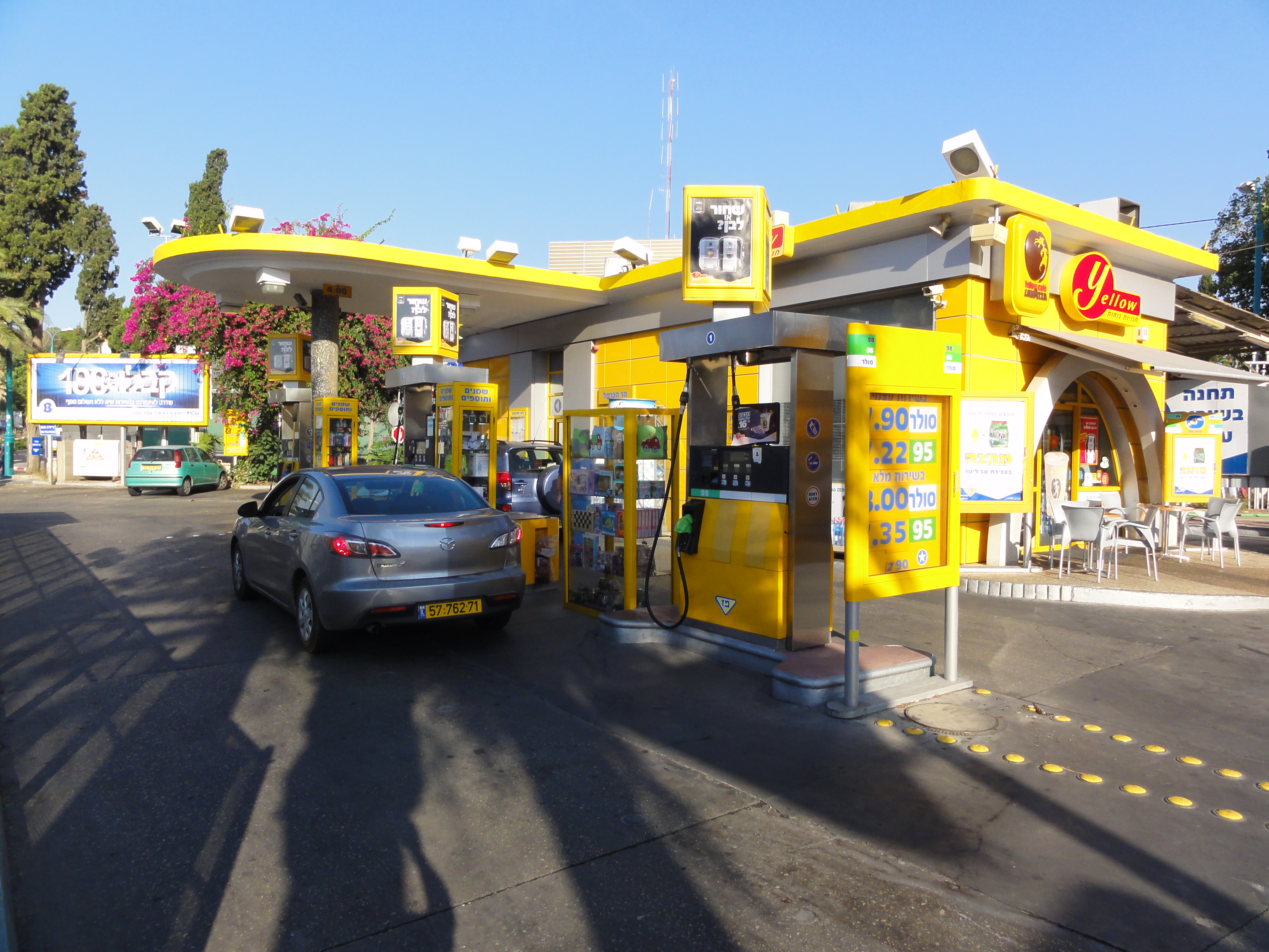 Yellow Gas station of Paz petrol in Haifa, Israel.